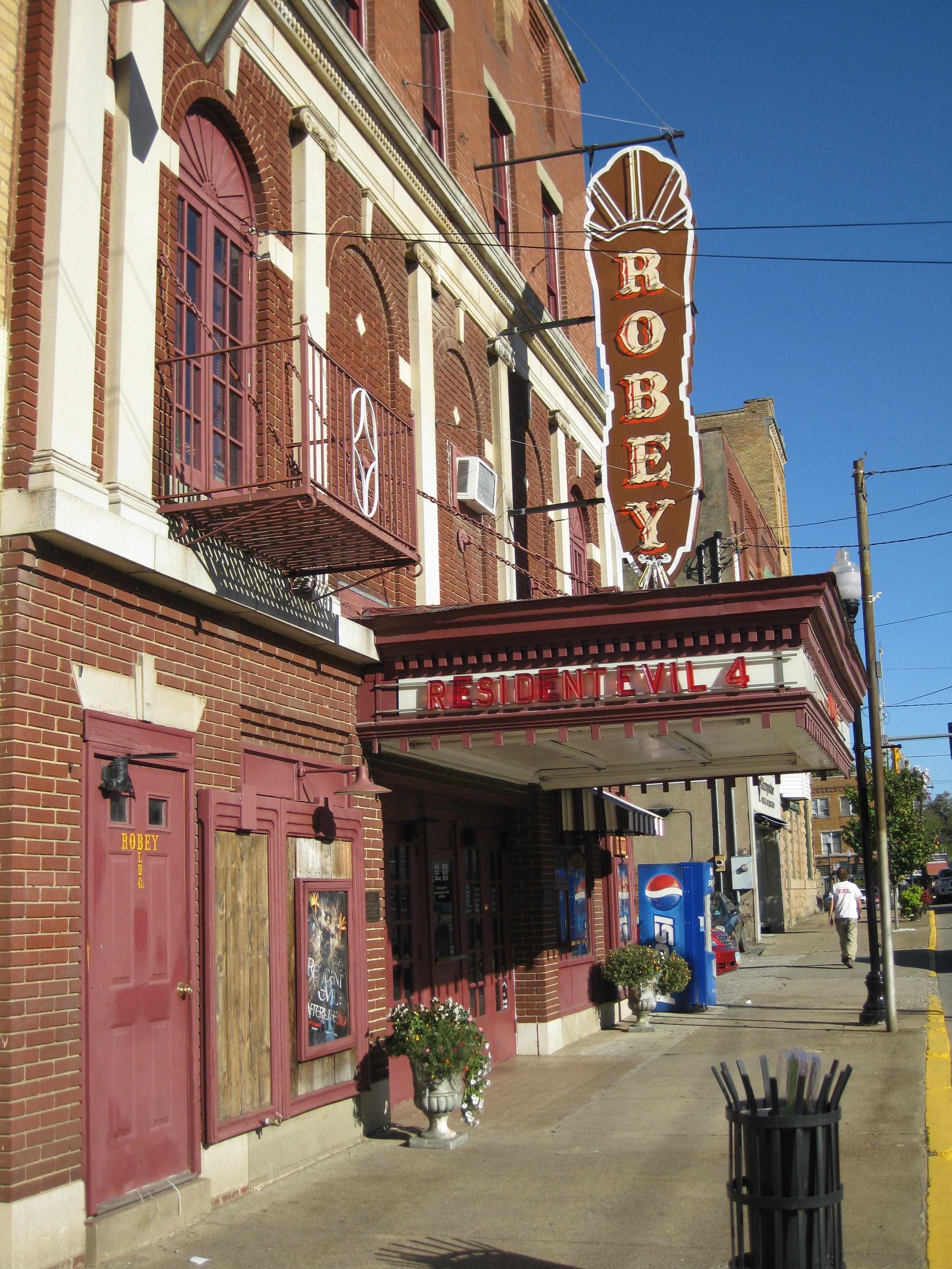 Robey Theatre, built in 1911 (established 1907 in a different location), in Spencer, West Virginia